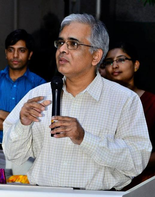 Picture of Dr. S.C. Mande